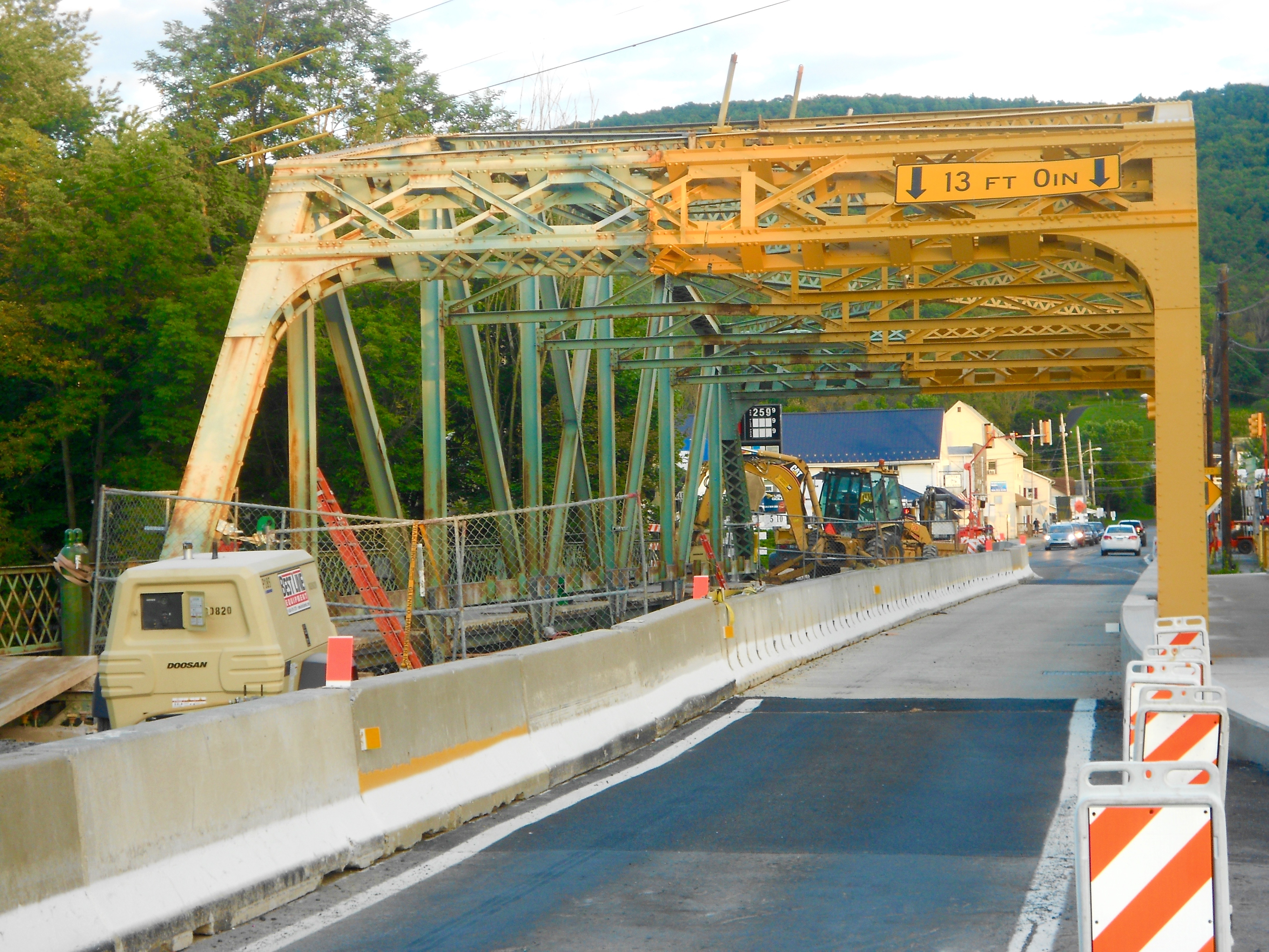 Bridge repair over Bald Eagle Creek in Milesburg, Pennsylvania. Left lane is totally gone here, but the most striking thing is that the bridge is only halfway painted.